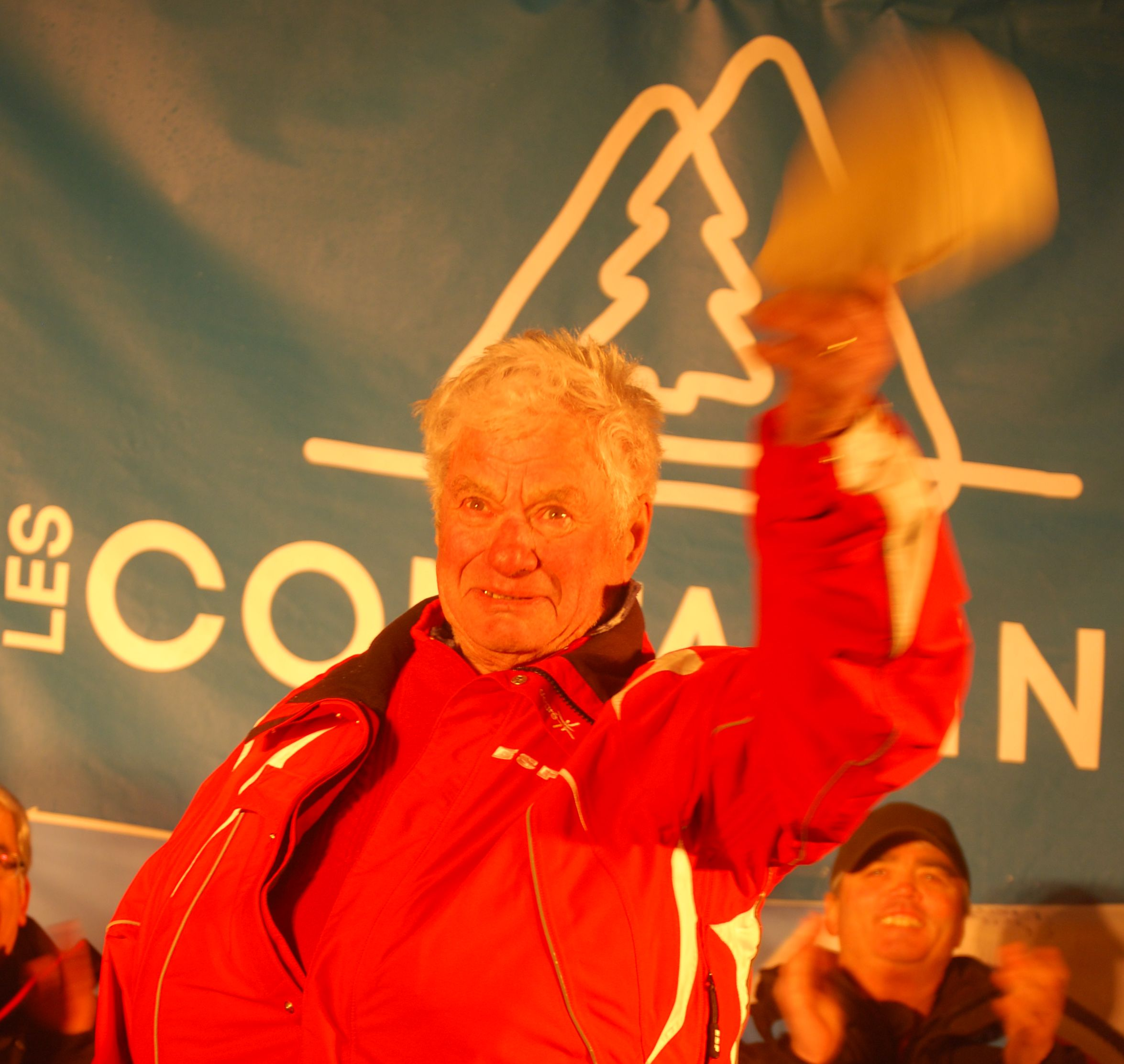 Régis Rey, during a ceremony in honor of Coline Mattel to return Contamines with his Olympic medal, with the reminder list of the champions Contamines, including Régis Rey and Robert Rey.